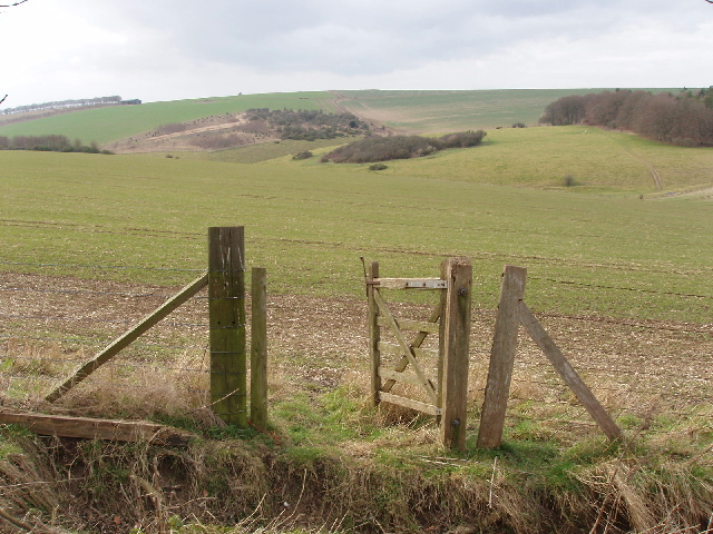 Gate on Stony Hill, by Fisherton de la Mere. View west over downland towards Codford Circle. View from the parish and district boundary, east of the bridleway which was not visible in the planted field.